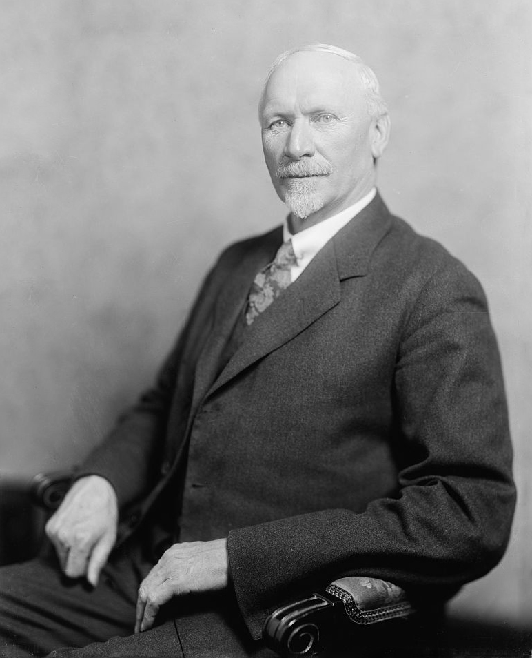 A Portrait of Jan Smuts.